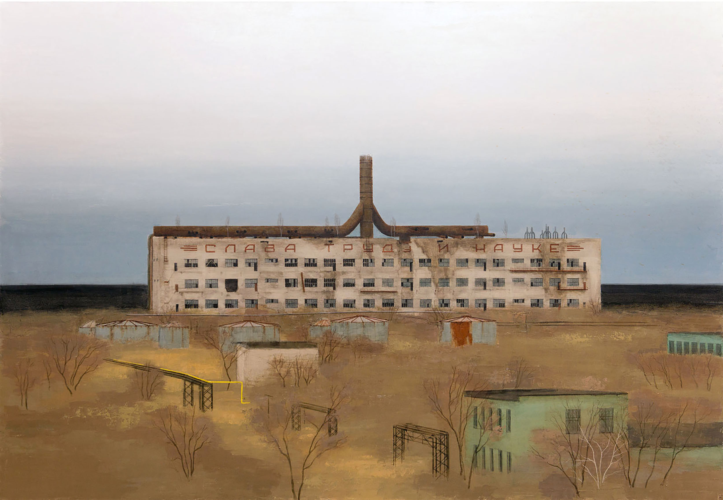 oil on canvas 180х260